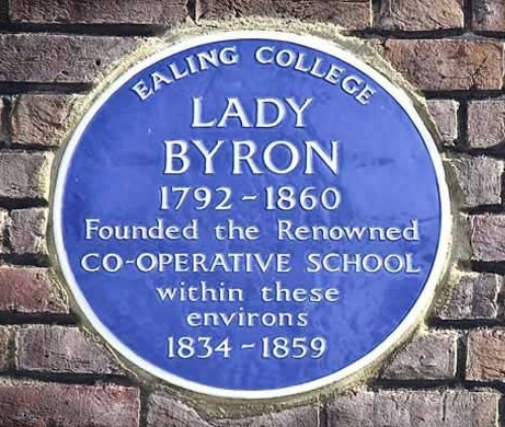 University of West London, founded by Lady Byron in 1860. 36 St Mary's Road, London, Middlesex W5 5EU